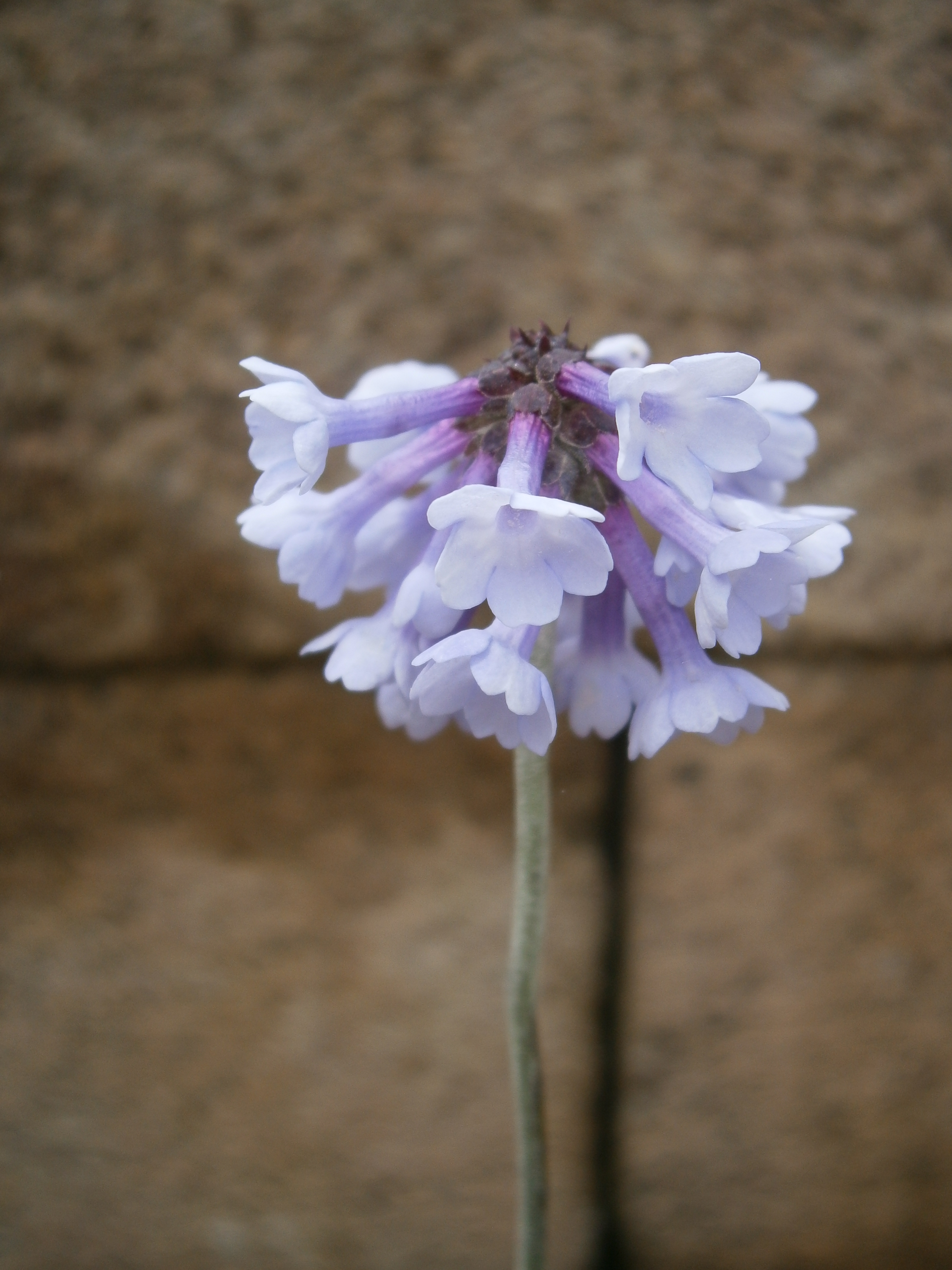 Primula bellidifolia in the Jardin Botanique Alpin du Lautaret